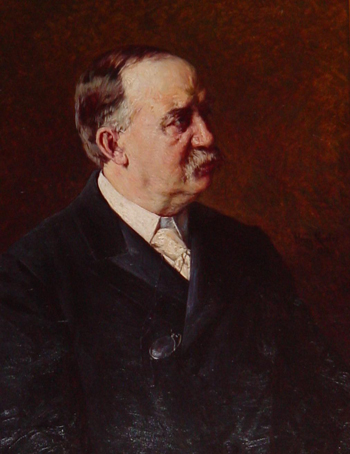 Portrait of George K. Nash, Governor of Ohio, hangs in room 119 of Ohio Statehouse. Oil on Canvas, 30 X 25 inches.